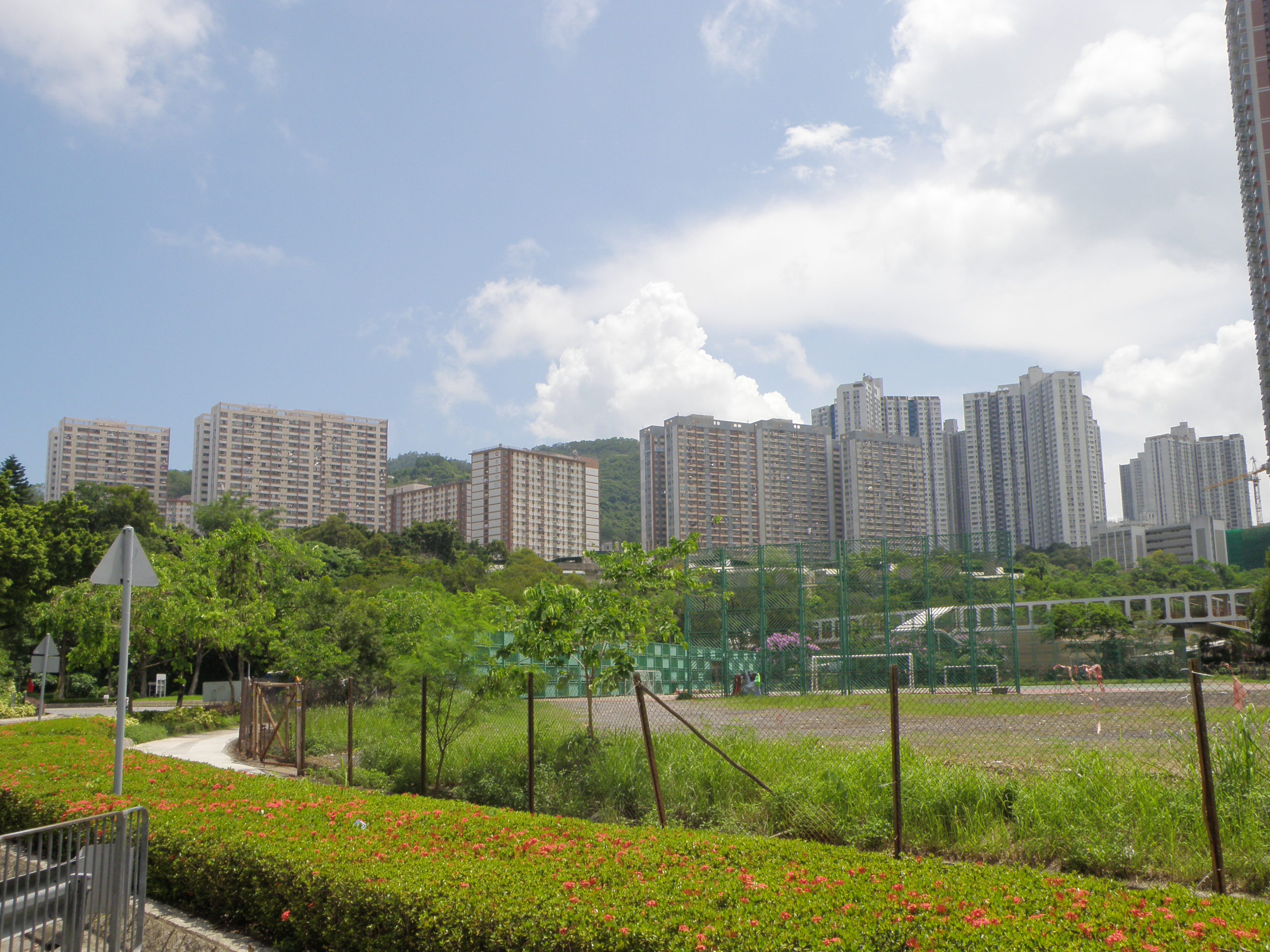 Cheung Hong Estate in Tsing Yi, Hong Kong.